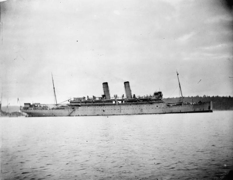 Photograph of British armed merchant cruiser HMS Otranto.